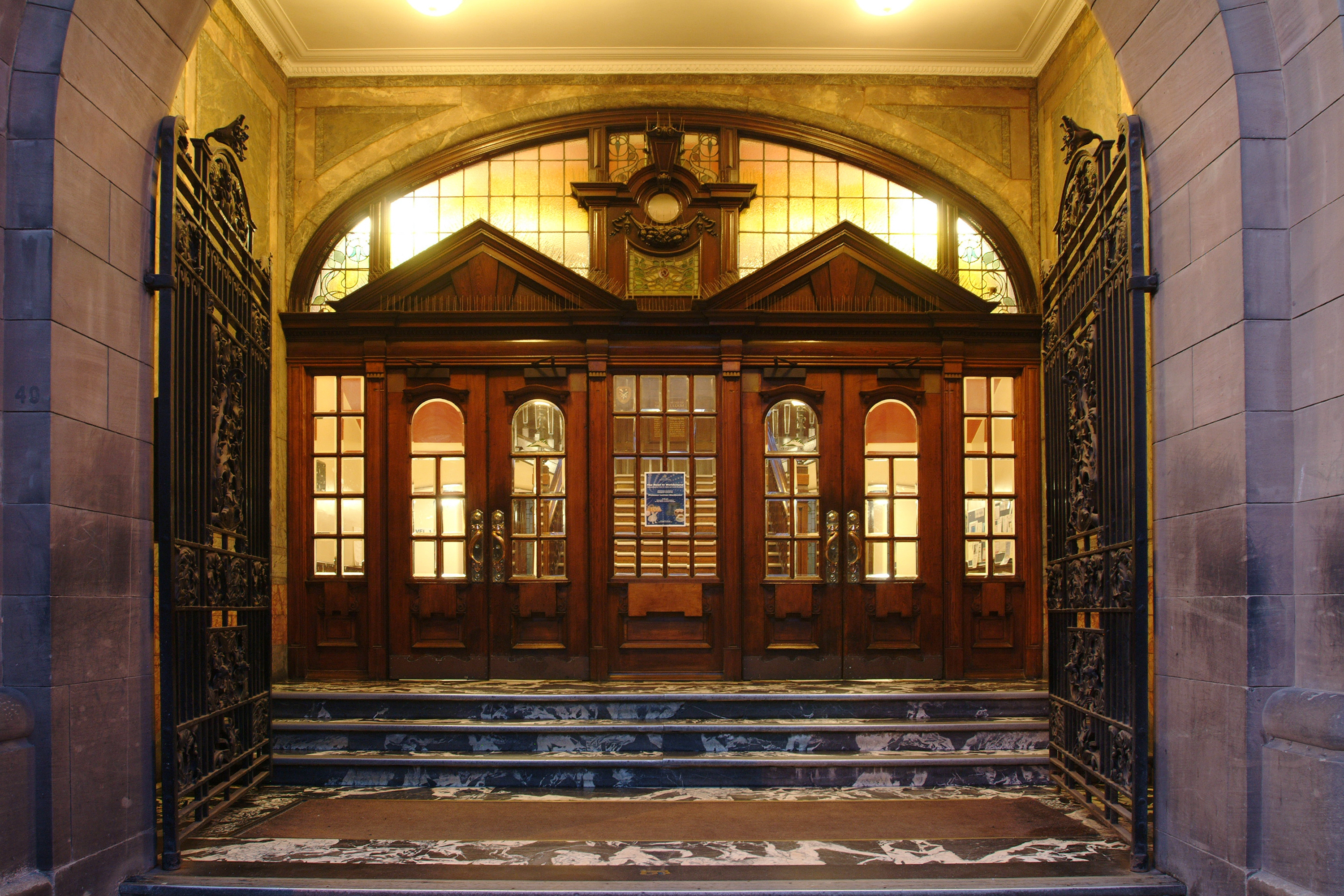 Dundee Business School, University of Abertay Dundee